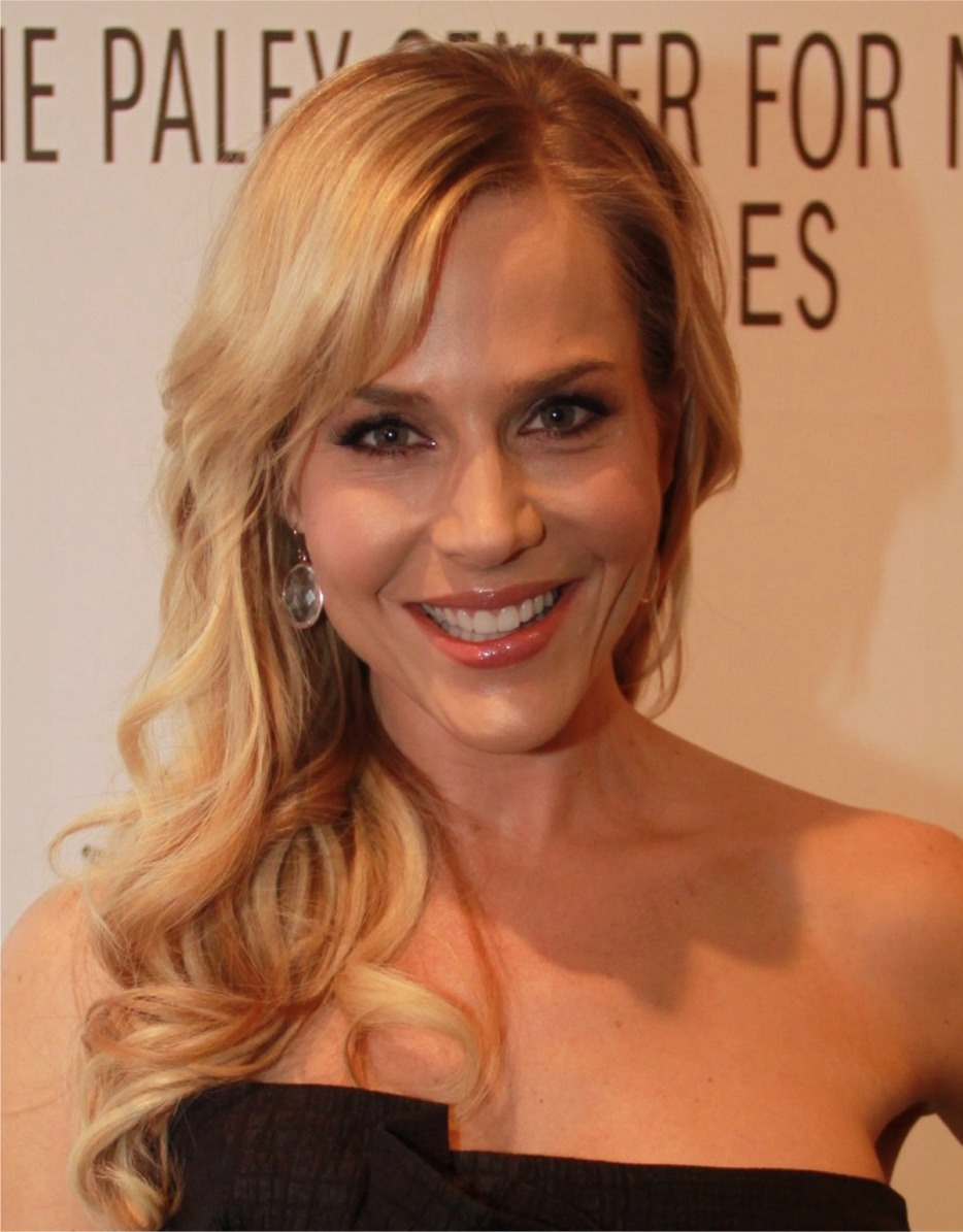 Julie Benz at PaleyFest2010's "Dexter" night at the Saban Theatre on March 4th, 2010.